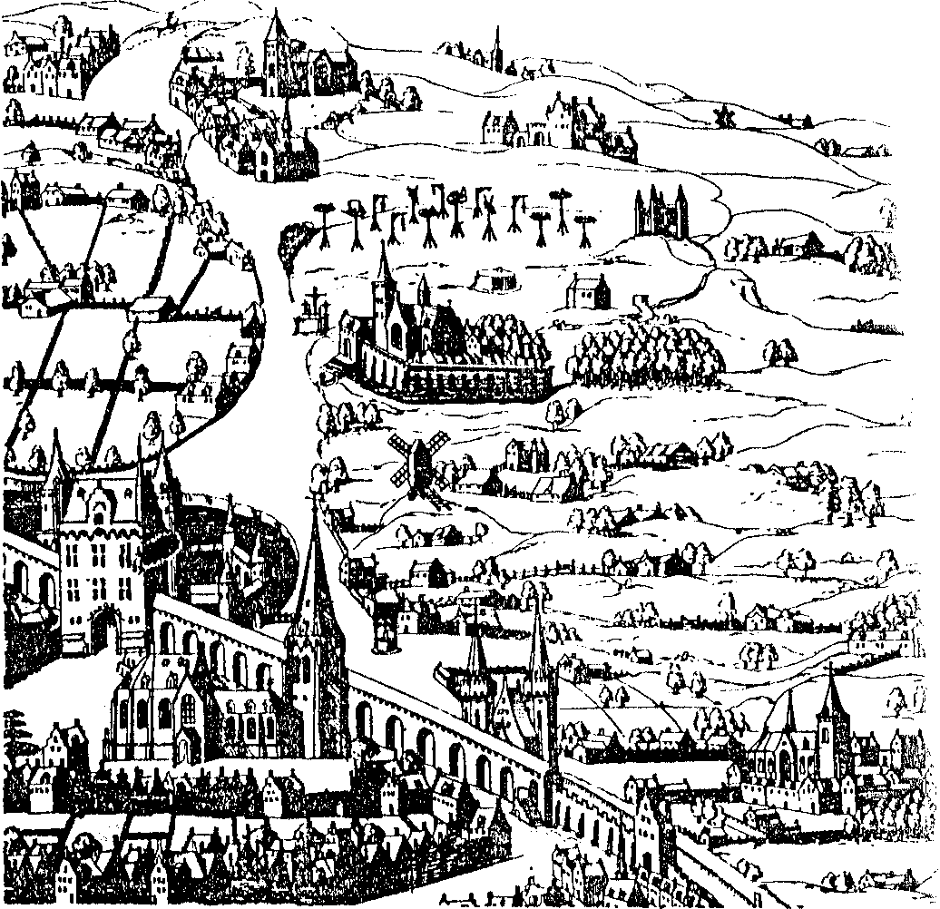 Gallowfield near Antwerp in 1525